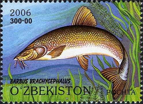 Stamps of Uzbekistan, 2006